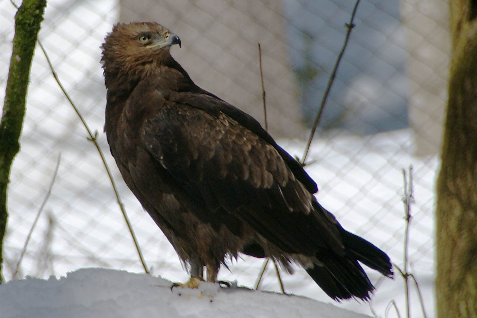 Lesser Spotted Eagle in an open-air enclosure at the National Park Bavarian Forest